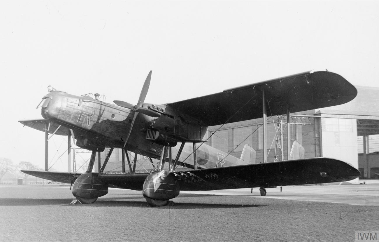 The Royal Air Force in the 1930s A Handley Page Heyford Mark III heavy bomber of No 102 Squadron at Honington in 1938.